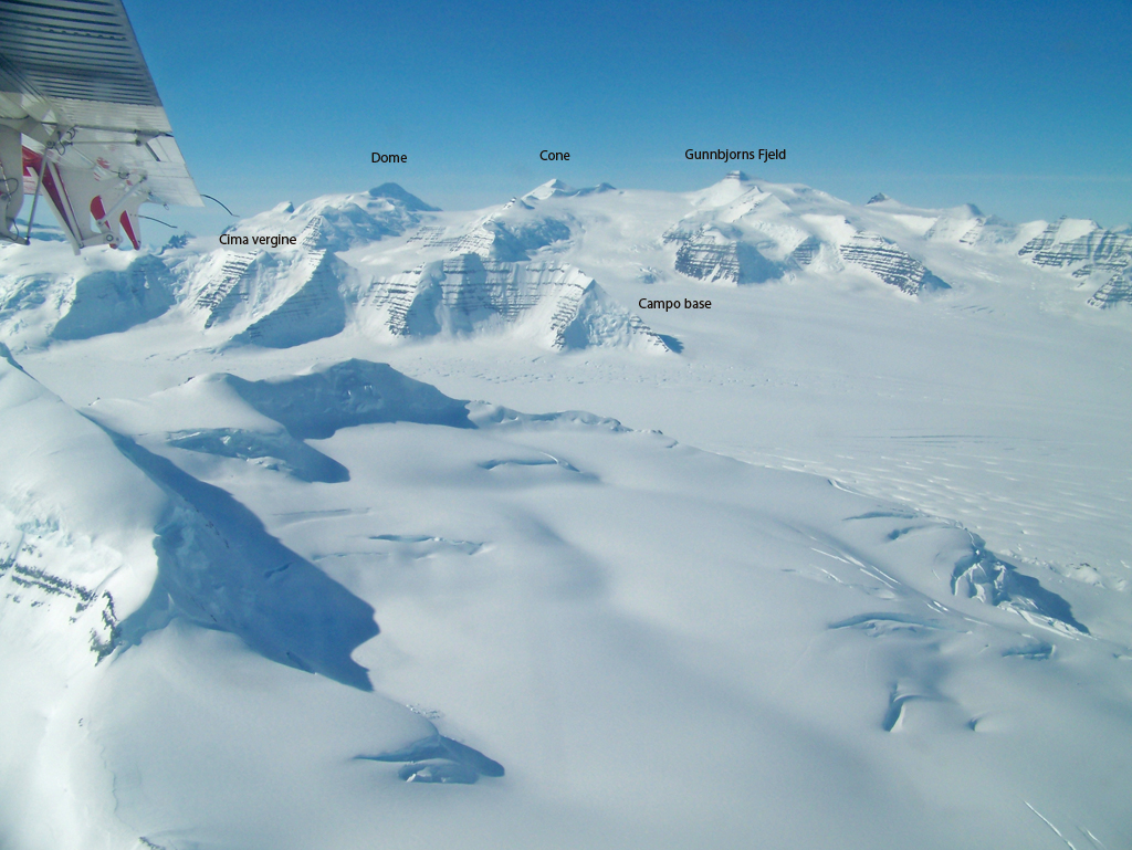 aerial view of the main peaks of the Watkins Mountains and of the place where usually climbers place the base camp